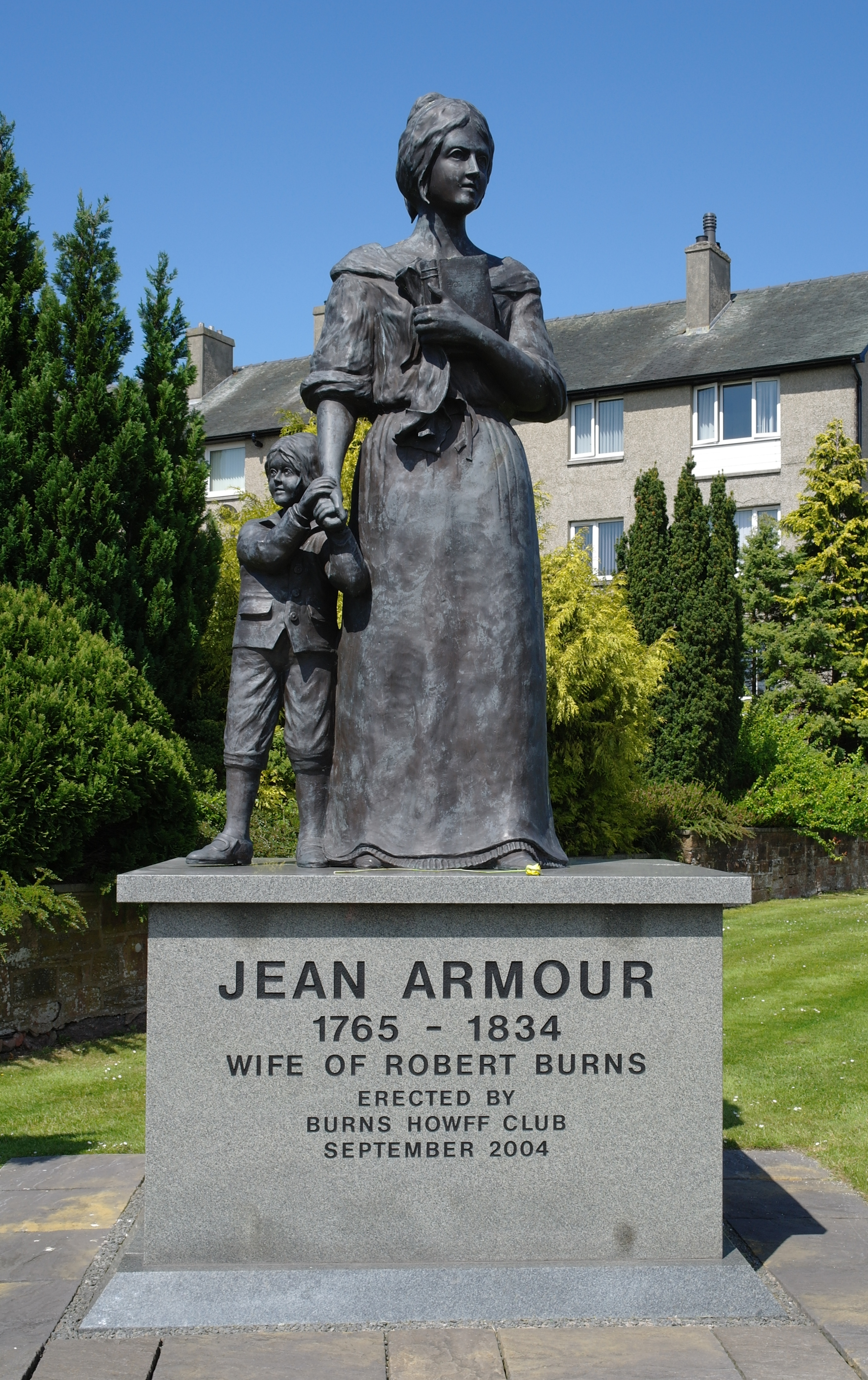 Statue of Jean Armour, wife of Robert Burns, in Dumfries.